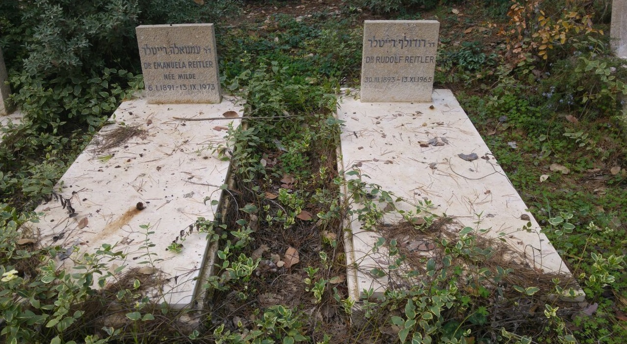 Dr. Rudolph and Dr. Emanuela Reitler graves. the graves are located at kibbutz HaZore'a cemetery, Israel.